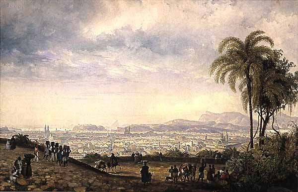 Landscape of the city of Rio de Janeiro, seen from the Conceição Hill